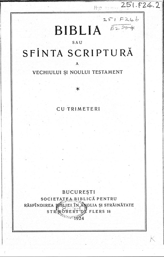 Title page of the Cornilescu 1924 edition